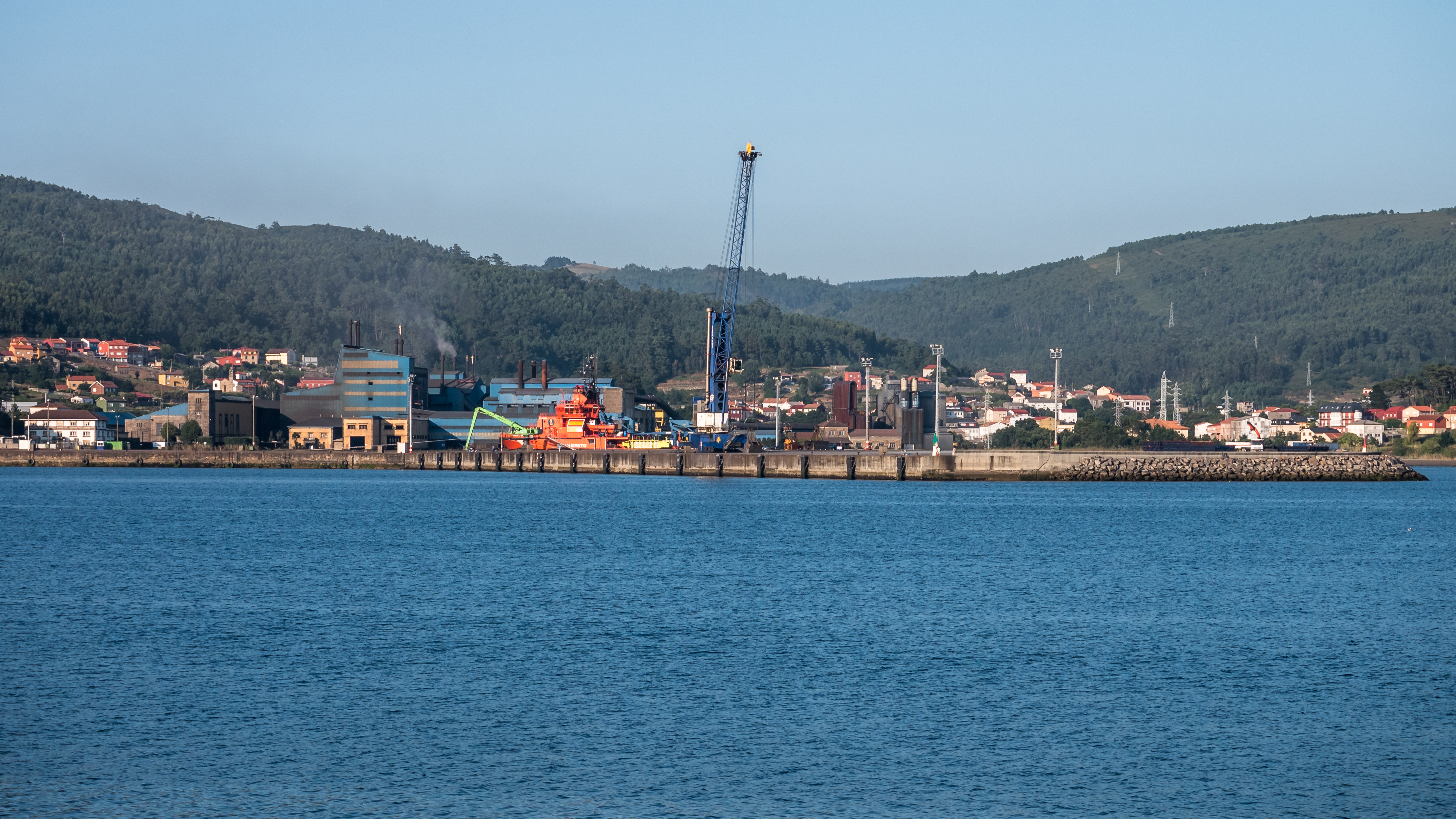 Port of Brent, quay and ferromanganese plant. Cee, La Coruña, Galicia, Spain